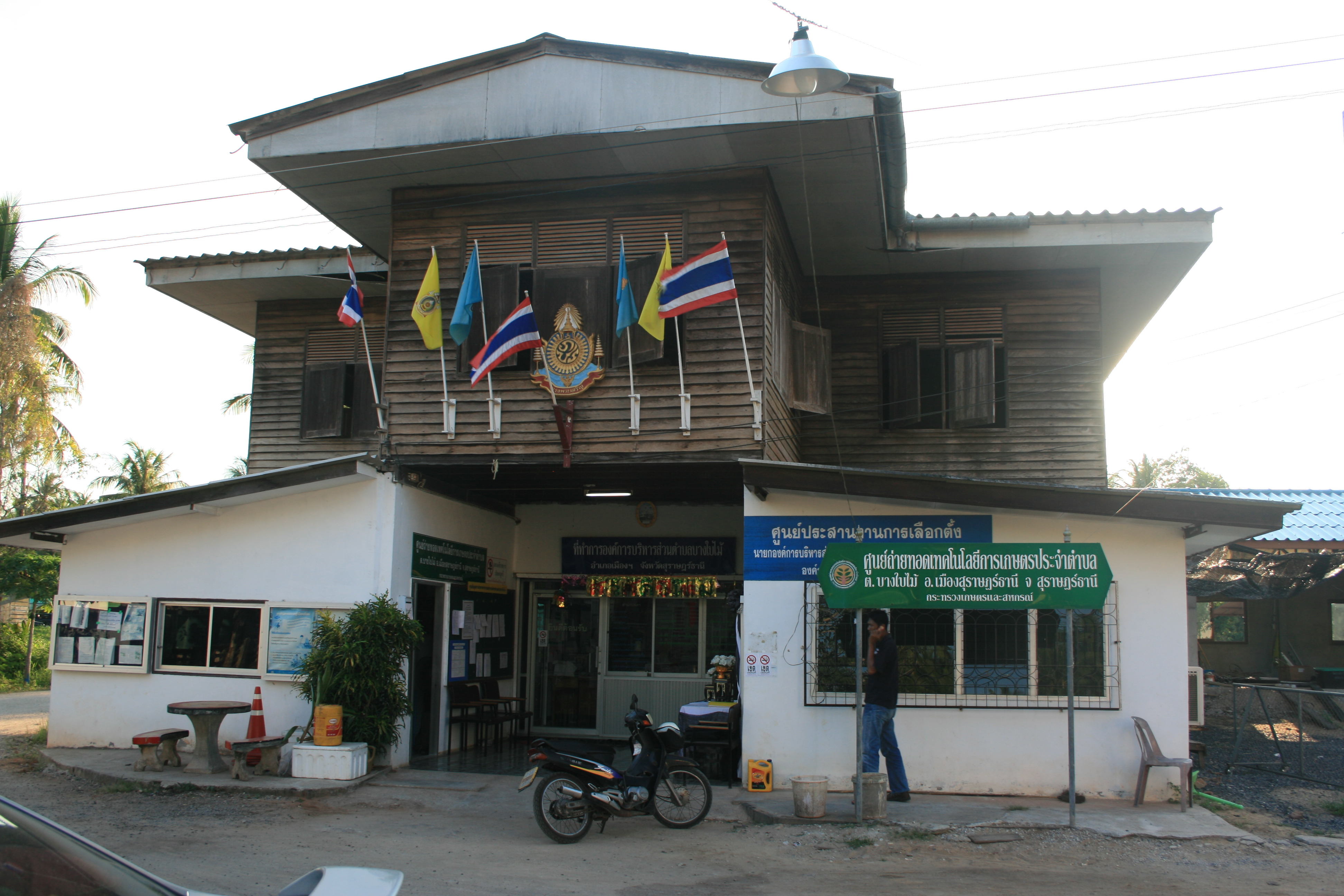 Former office of the Tambon Administrative Organization (TAO) Bang Bai Mai, Mueang Surat Thani district, Surat Thani Province, Thailand